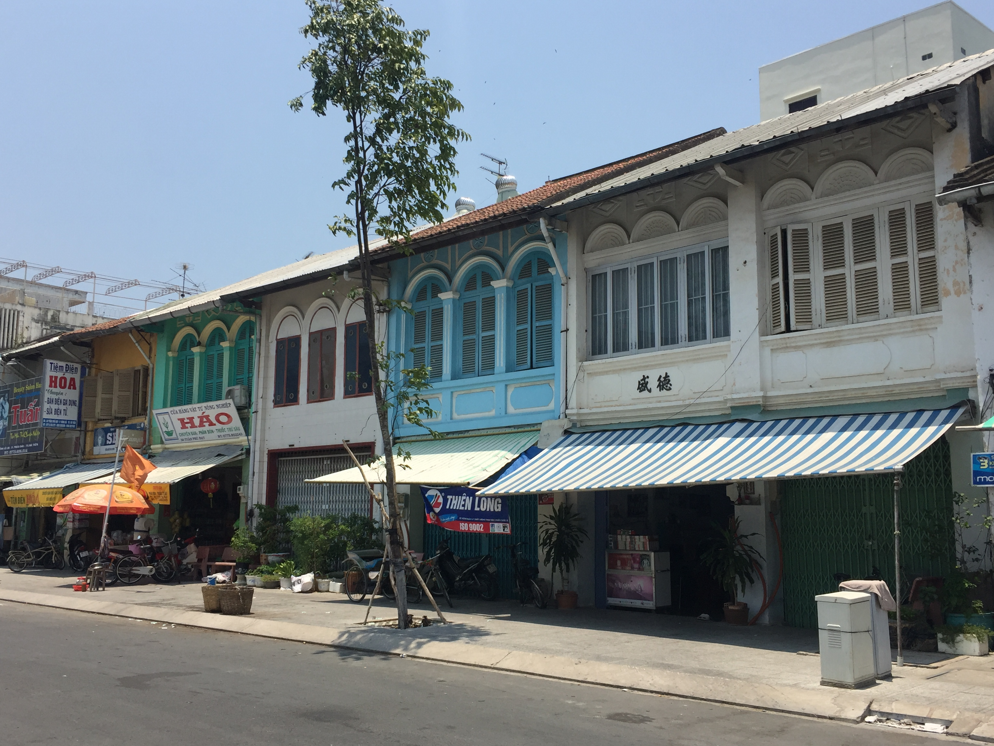 Main street of Ha Tien, Vietnam